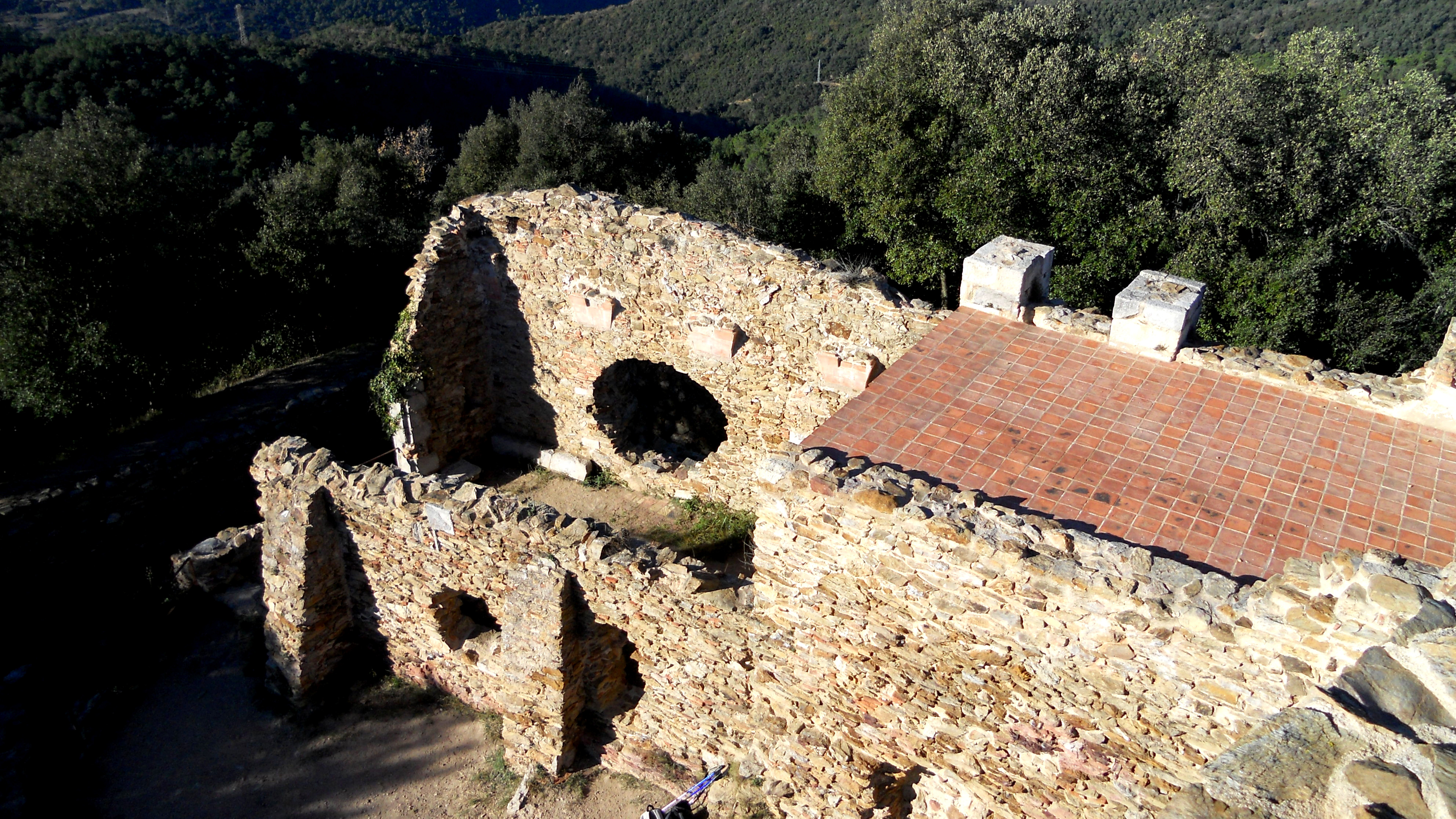 CASTELL DE SANT MIQUEL